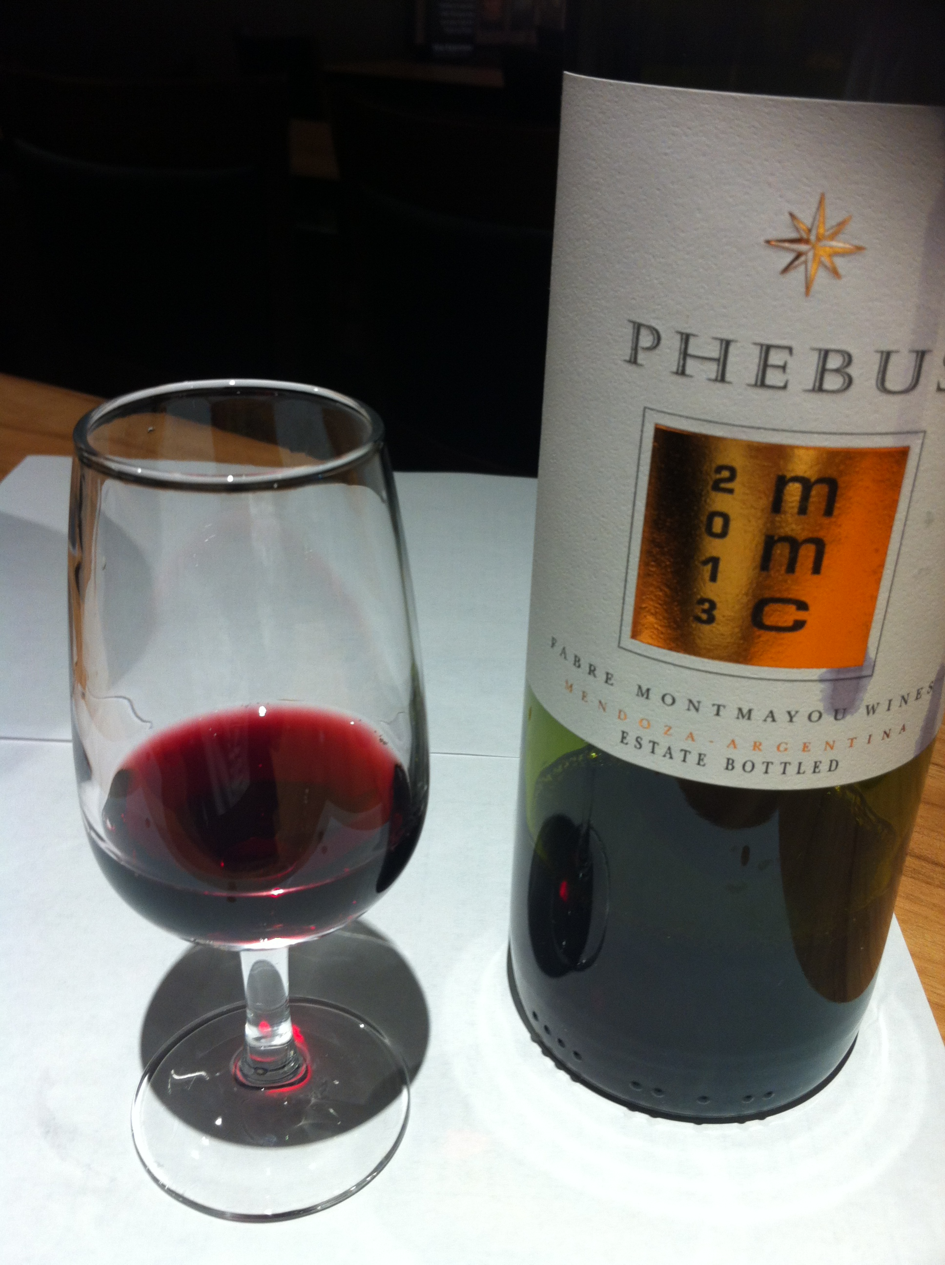 Malbec, Merlot and Cabernet Sauvignon blend from the Mendoza wine region of Argentina